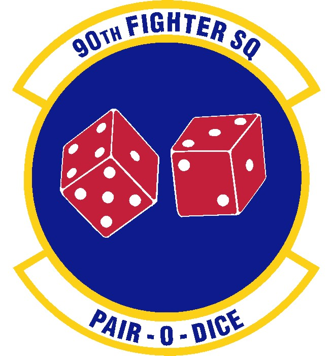 The emblem of the 90th Fighter Squadron. Source: 3d Wing Public Affairs.